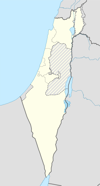 Map of Israel Standard Time